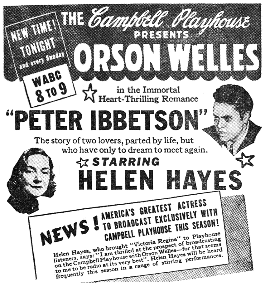 Newspaper advertisement for The Campbell Playhouse presentation of "Peter Ibbetson" starring Helen Hayes and Orson Welles